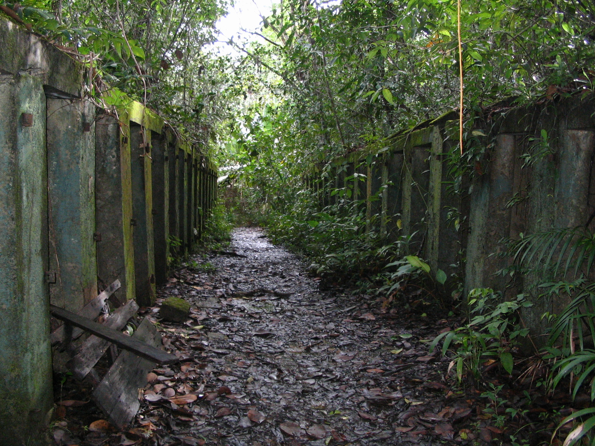 A hallway of the abandoned prison that once held Indochinese (Southeast Asian) prisoners in the interior of French Guiana. Photo taken in French Guiana on 26 June 2005.